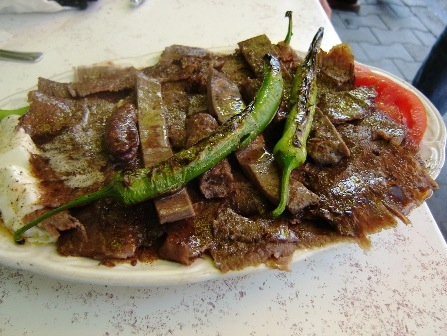 A plate of Döner Kebab served in the Bursa Style,in Bursa, picture by Hakkı Arıkan